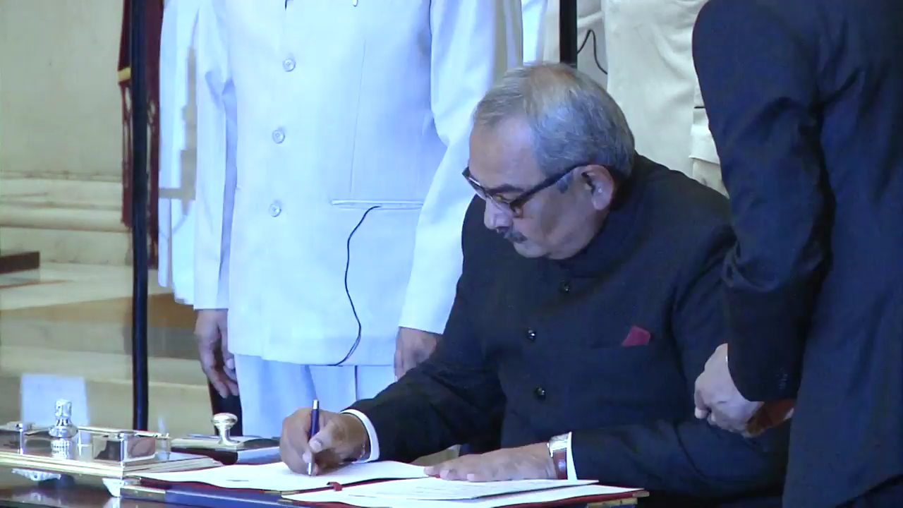 Rajiv Mehrishi taking over as CAG of India